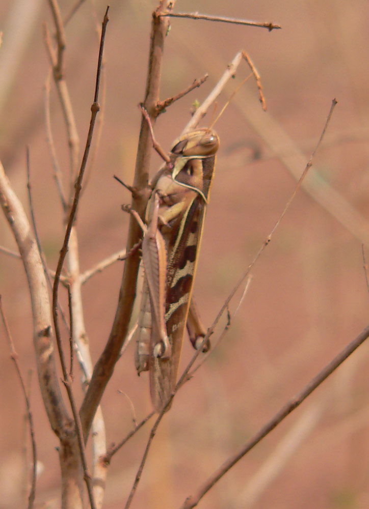 Female bird locust, Ornithacris cavroisi, photographed by Christiaan Kooyman on 2 July 2005 near Kerewan, The Gambia.